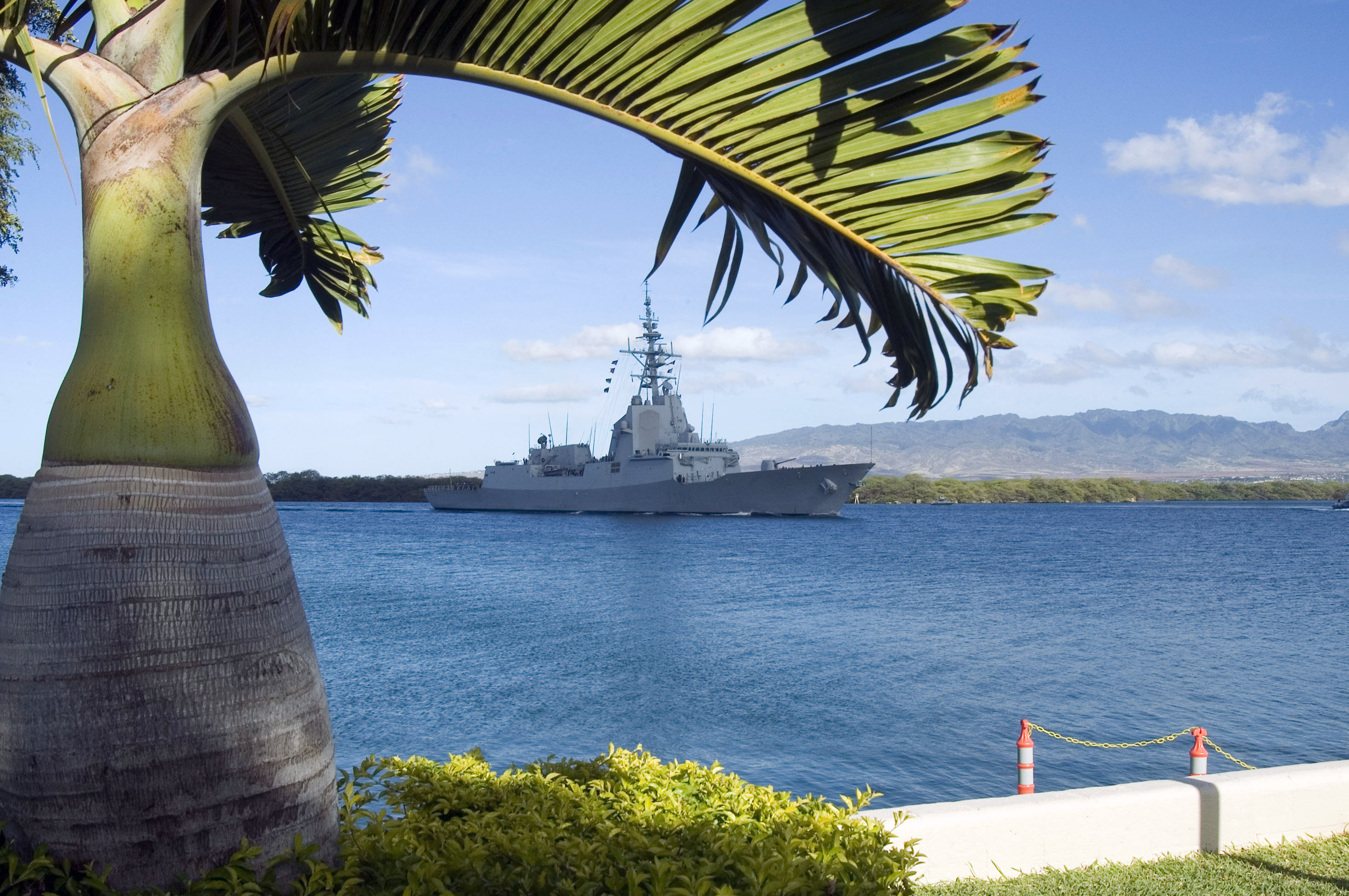 PEARL HARBOR, Hawaii (June 23, 2007) - Spanish frigate SPS Mendez Nunez (F-104) passes Hospital Point as she pulls into Pearl Harbor for a port visit. The frigate recently participated with San Diego-based Aegis destroyer USS Decatur (DDG 73) and Pearl Harbor-based Aegis cruiser USS Port Royal (CG 73) in a successful ballistic missile hit-to-kill intercept flight test off the coast of Kauai. Mendez Nunez performed long-range surveillance and track operations as a training event to assess the future capabilities of the F-100 class. U.S. Navy photo by Mass Communication Specialist 3rd Class Paul D. Honnick (RELEASED)